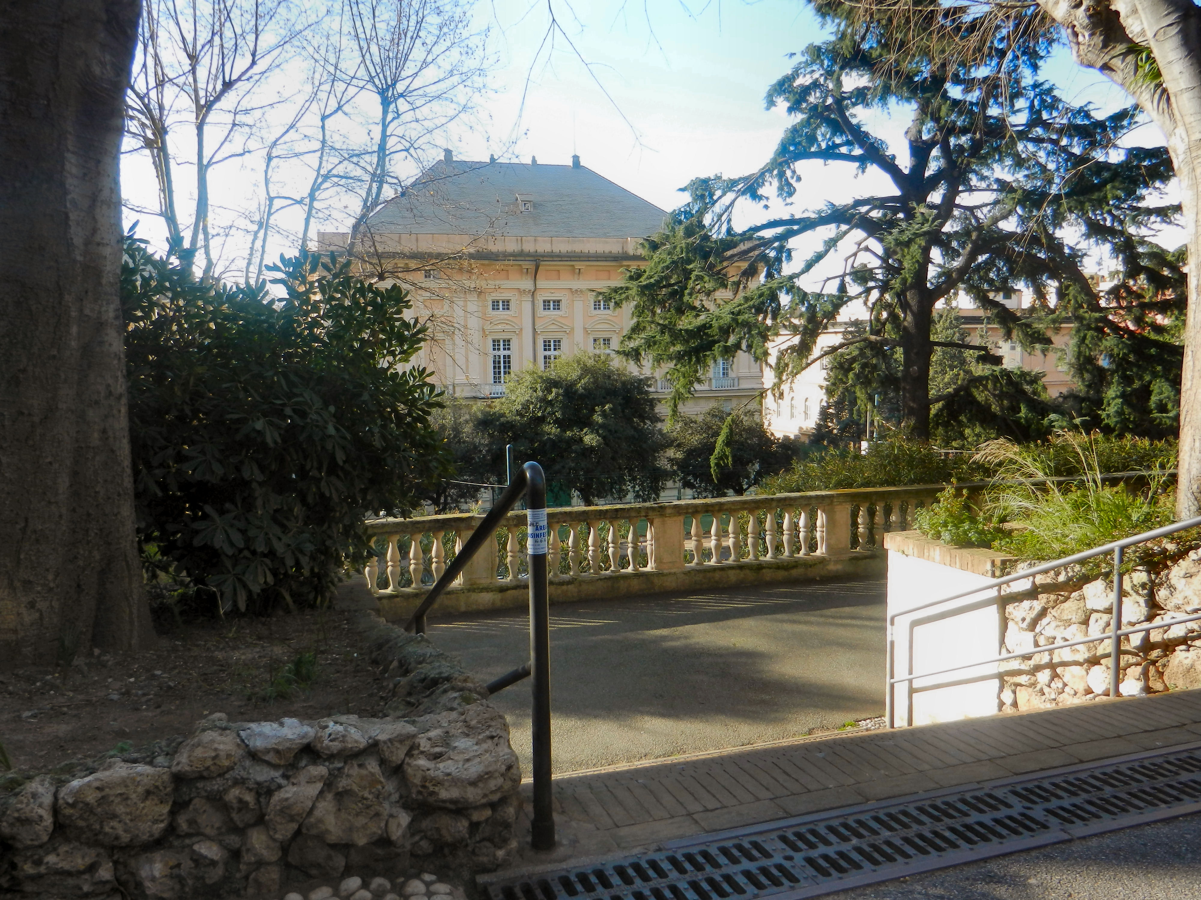 Genoa, Italy, quarter of Sampierdarena, villa Imperiale Scassi seen from the garden